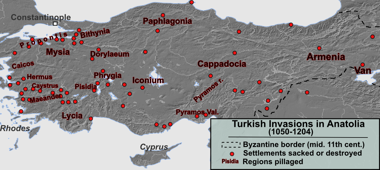 Asia Minor/Anatolia during the first waves of Turkish invasions (11th-13th century)